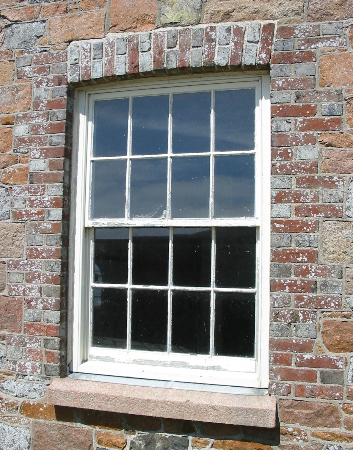 Elizabeth Castle, Jersey